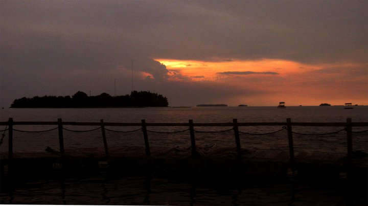 Kepulauan Seribu, DKI Jakarta, Indonesia